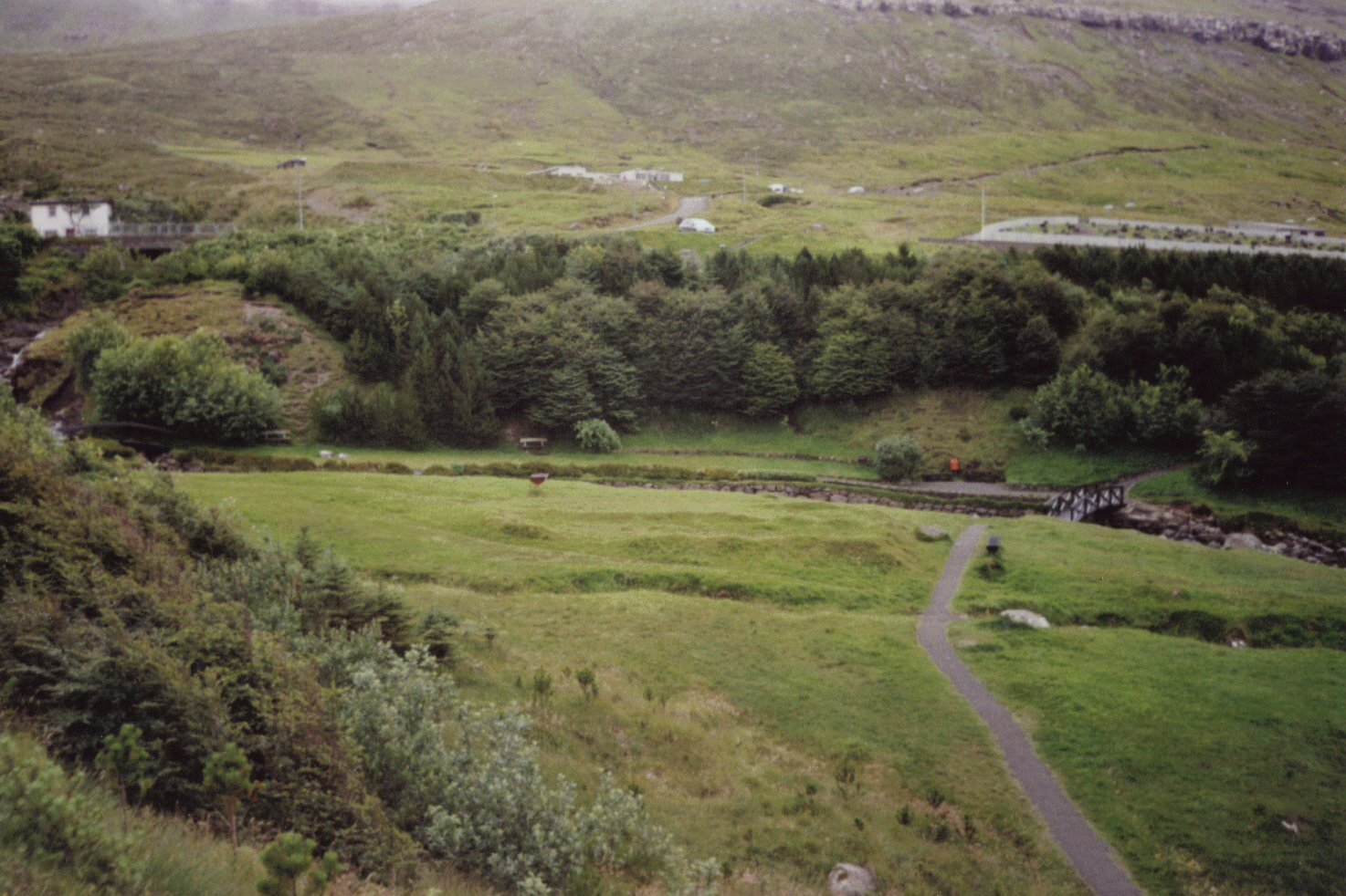 Forest near Klaksvík, Faroe Islands